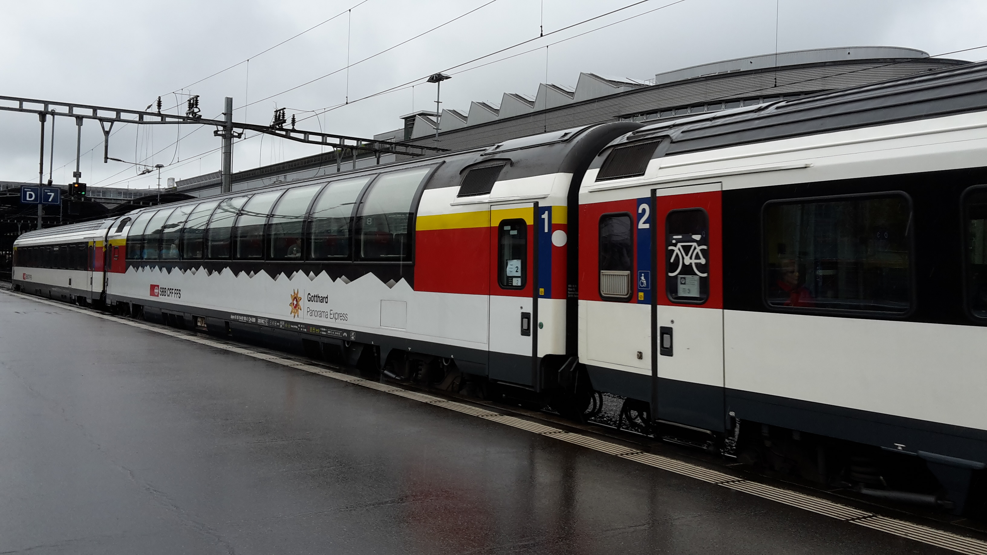 SBB CFF FFS panorama coach Apm 61 85 19-90 100-2 CH-SBB with inscription "Gotthard Panorama Express" in IR 2319 (Basel SBB - Locarno) after departure in Luzern